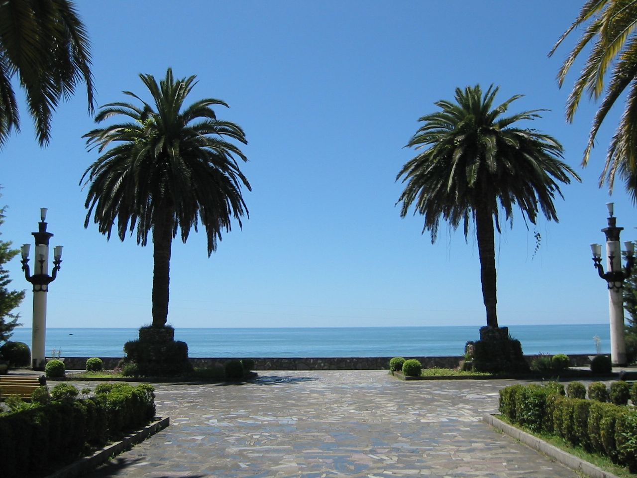 Gagra is a city in the Abkhazia, sprawling for 5 km on the northeast coast of the Black Sea, at the foot of the Caucasus Mountains. Its subtropical climate made Gagra a popular health resort in Imperial Russian and Soviet times.